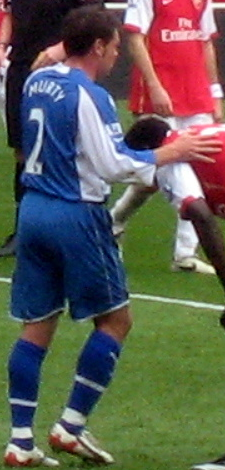 Graeme Murty. Image cropped from original at flickr.